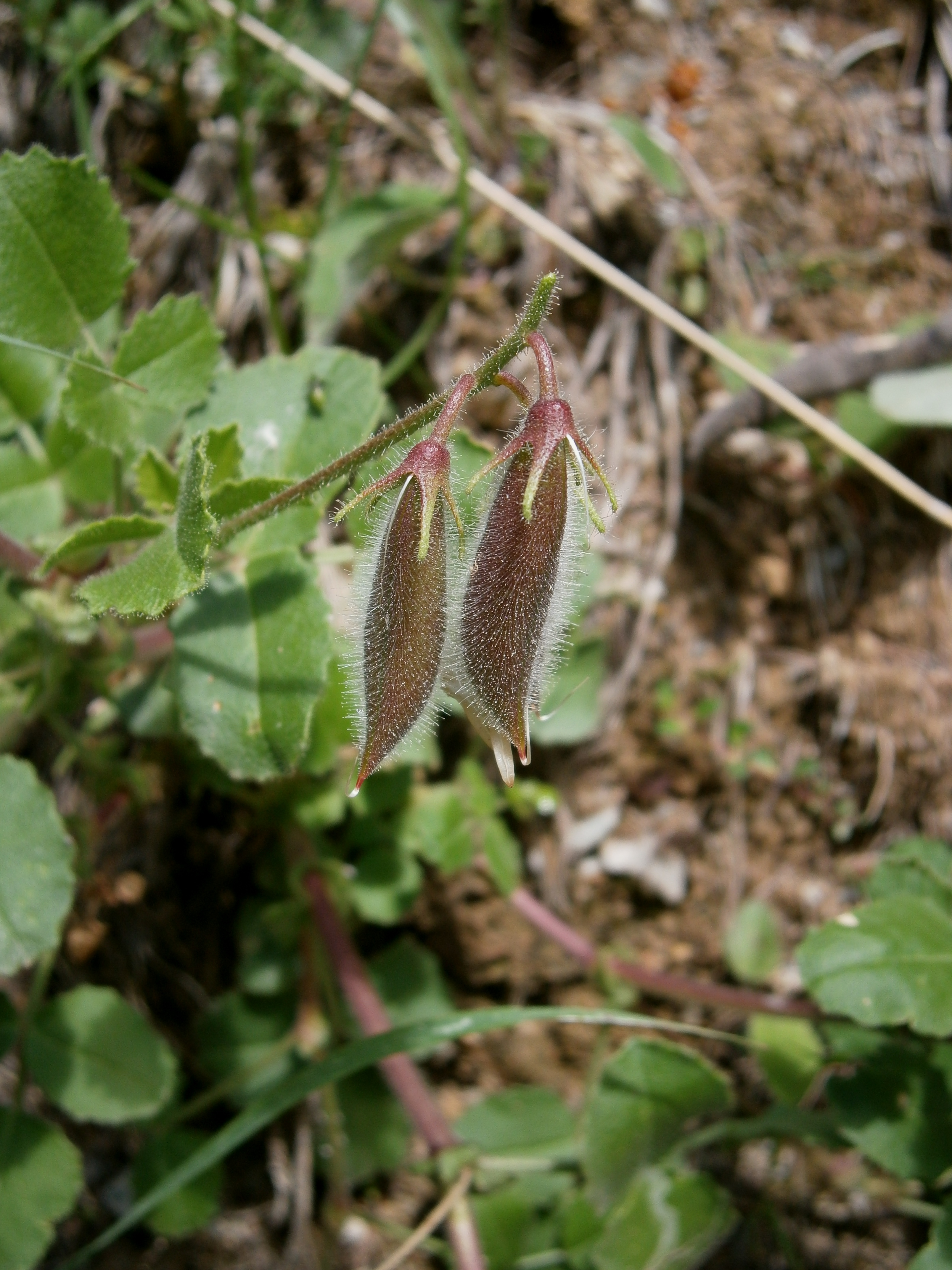 Ononis rotundifolia fruits